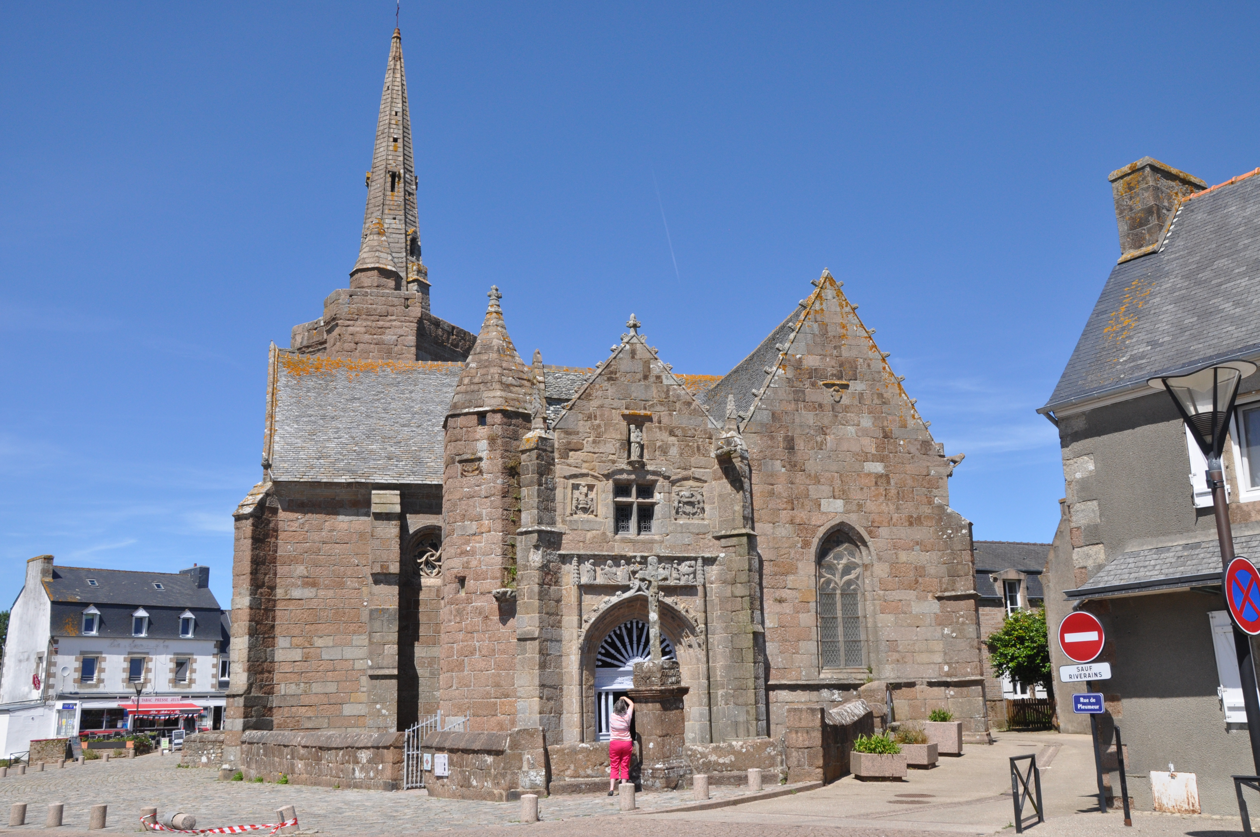 Brittany (France)